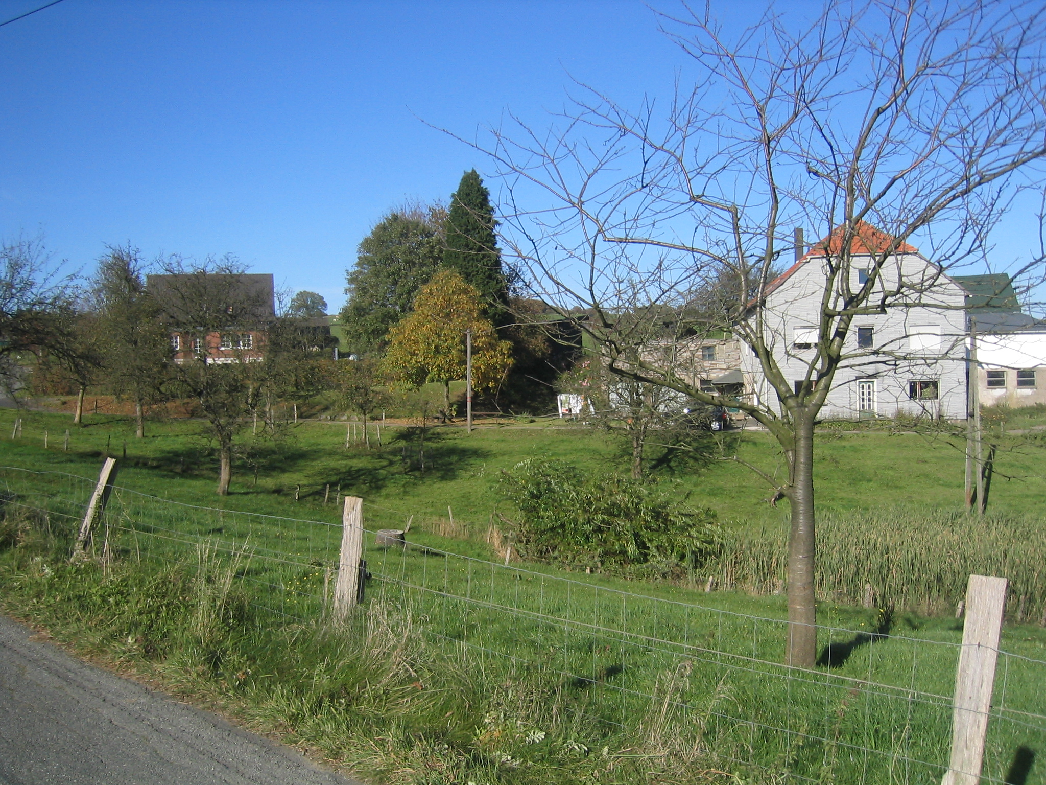 Schwickertzhausen center